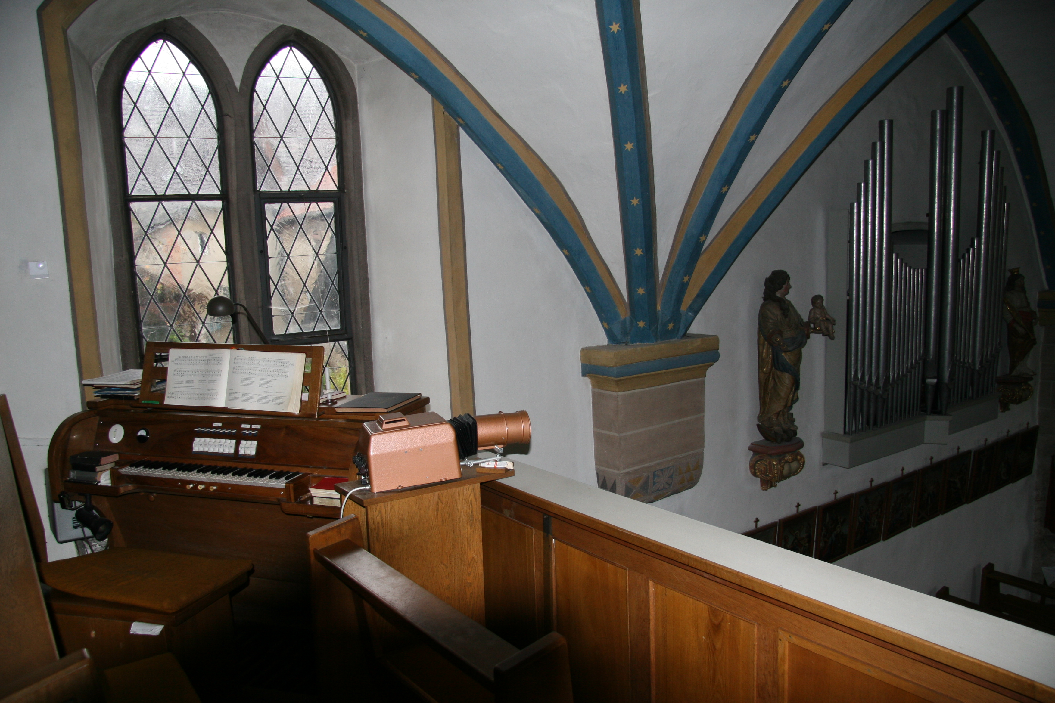 lateral view on Eggert orgue and pipe organ in St. Kilian (Welda), Warburg, Germany Seitliche Aufnahme von der Eggert-Orgel und von dem Orgelprospekt in der St. Kilian-Kirche (Welda), Warburg, Germany